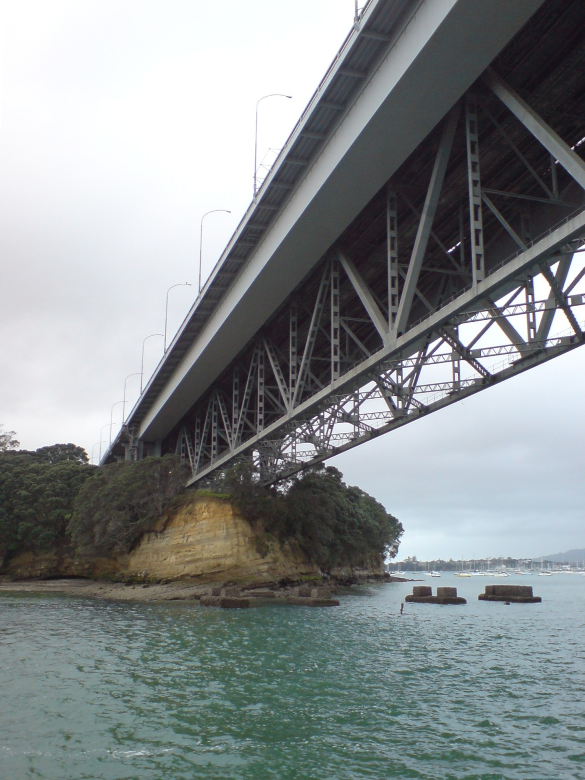 The girders/trusses underneath the Auckland Harbour Bridge, Auckland, New Zealand. Taken from the ferry to Birkenhead.